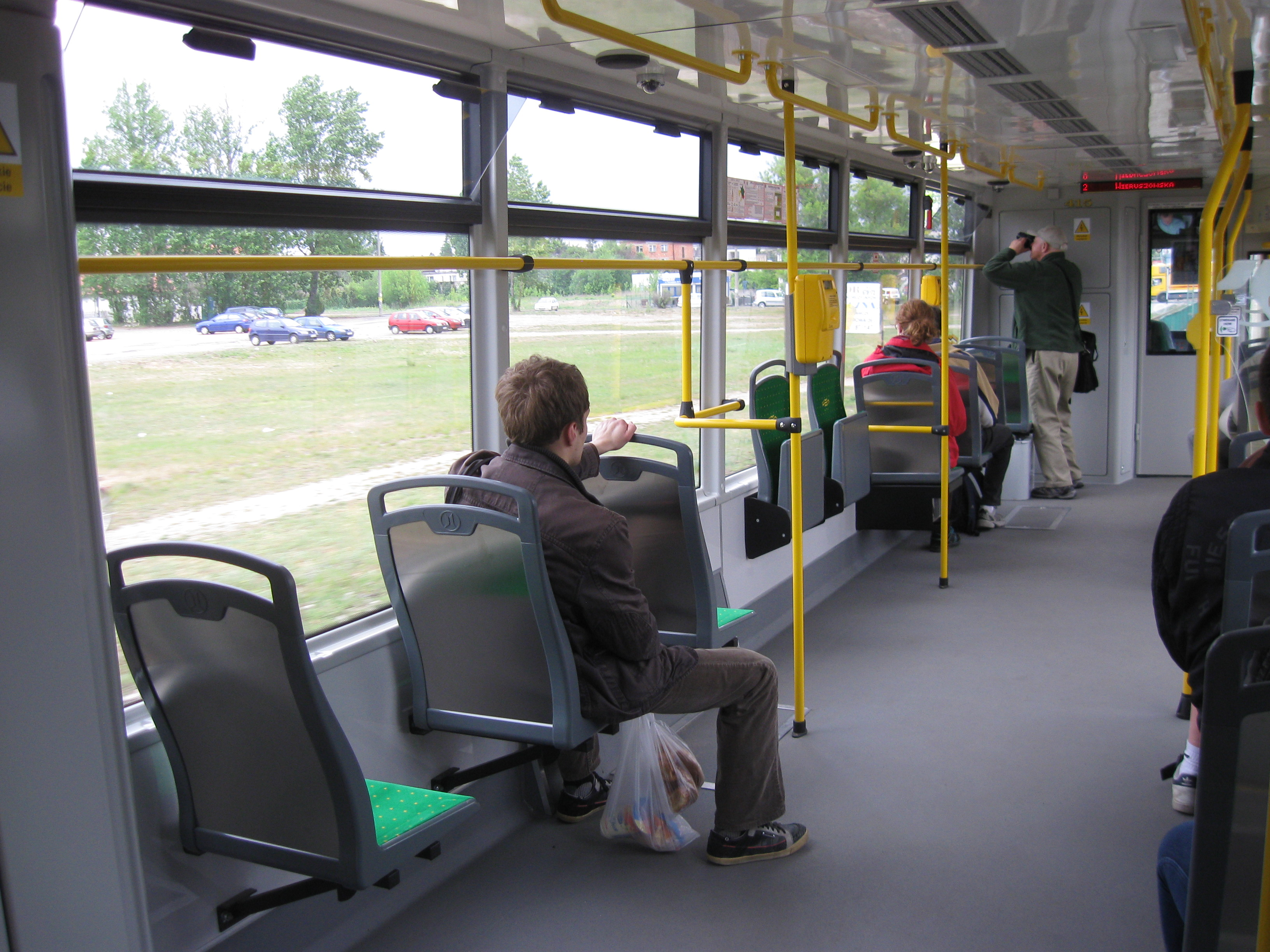 Tram Moderus Beta MF 02 AC (#415) in Poznań on tram terminus Junikowo - interior.